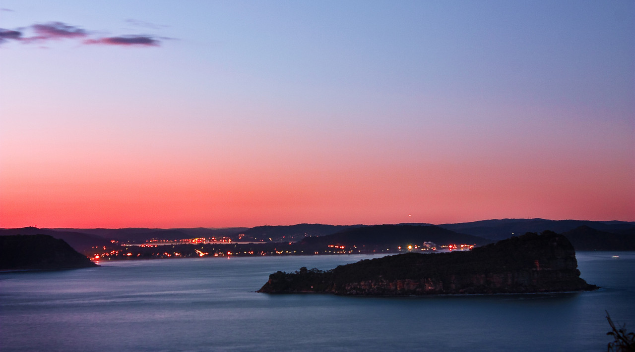 Lion Island at sunset